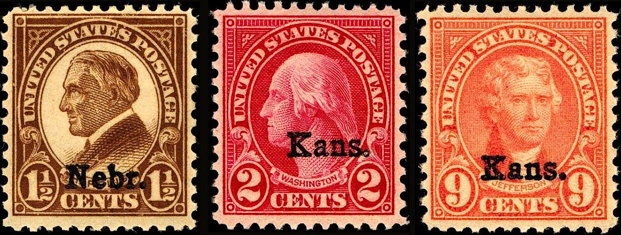 US Postage stamps, regular issues, 1929, Kans. and Nebr. overprints.